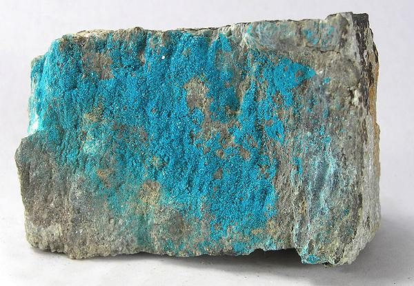 Langite Locality: Podlipa and Reinera Mines, Ľubietová (Libetbánya; Libethen) ore belt, Western Slovenské Rudohorie Mts, Banská Bystrica Region, Slovakia (Locality at ) Size: 7.1 x 4.7 x 3.9 cm. Langite is a RARE hydrated copper sulfate hydroxide, found almost exclusively in these druses of small crystals. It is formed from the oxidation of copper sulfides, and was first described in specimens from Cornwall, England.